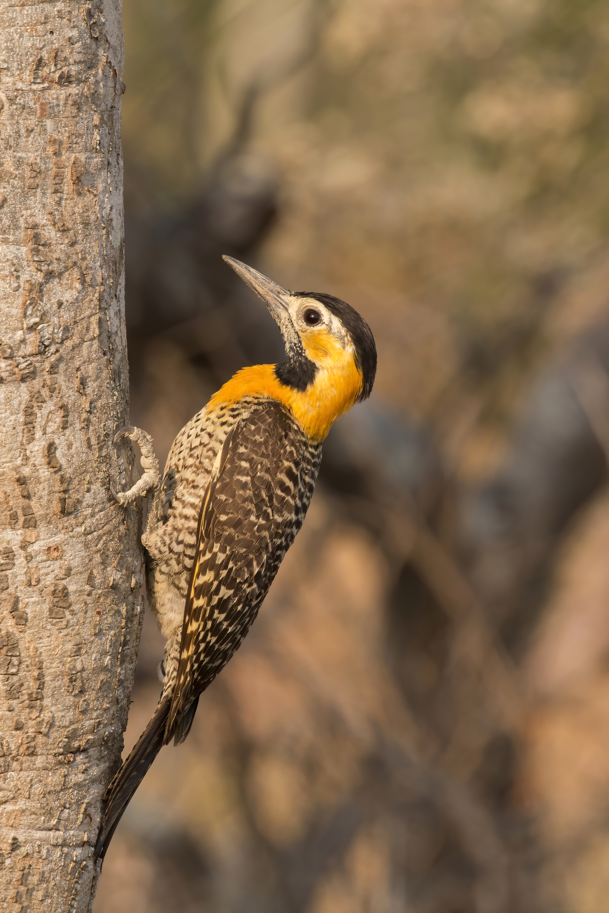 Campo flicker (Colaptes campestris) female, the Pantanal, Brazil